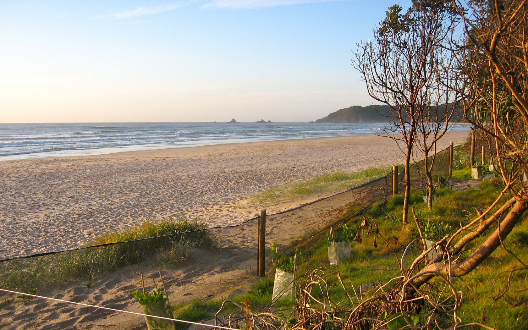 A view of Broken Head from an entry point onto Tallow Beach.